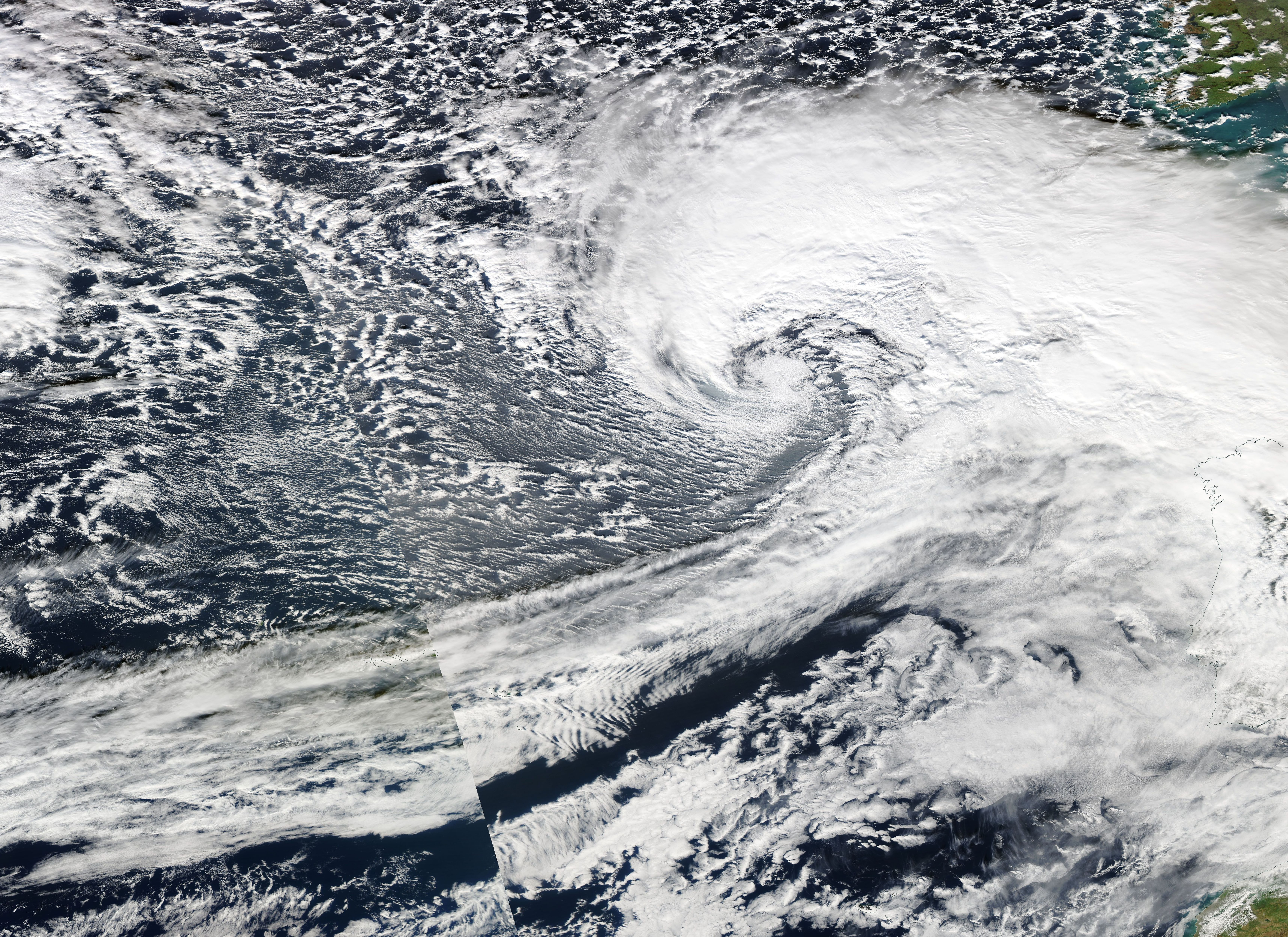 Cyclone Klaus located over the north-eastern Atlantic Ocean, approaching western Europe, on 23 January 2009.